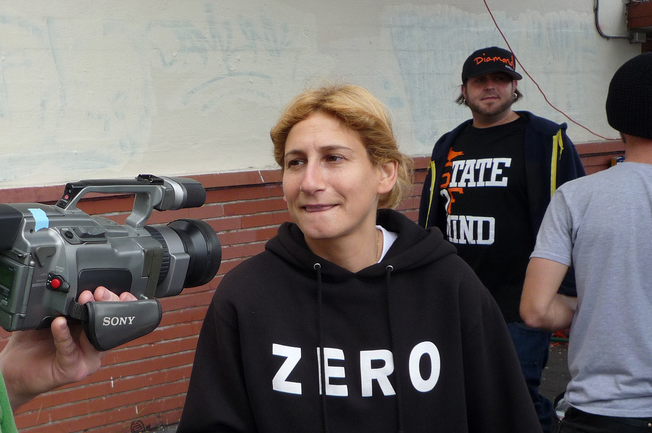 Elissa Steamer